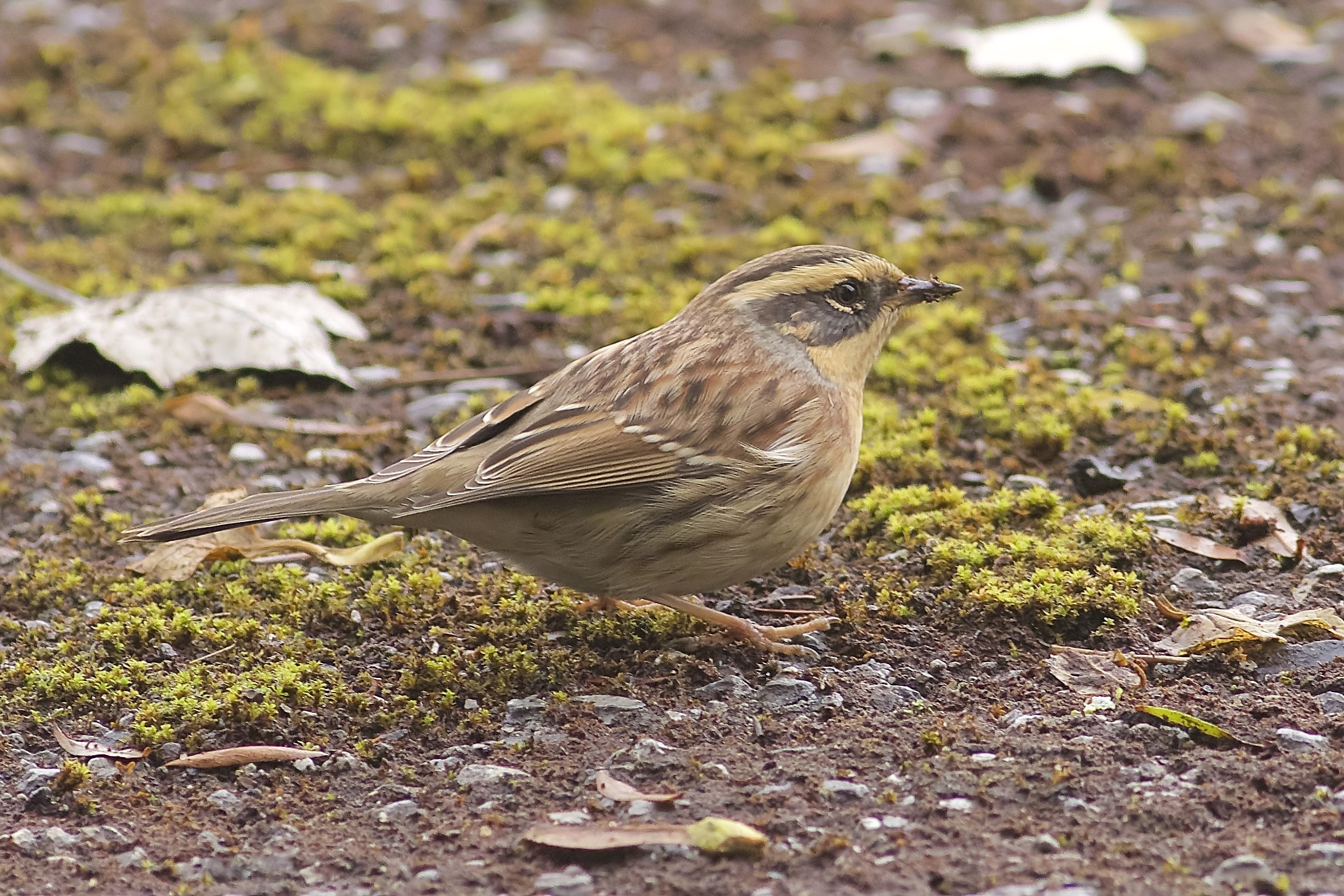 The Siberian Accentor Prunella montanella at Easington, East Riding of Yorkshire in October 2016, the second record for the UK.